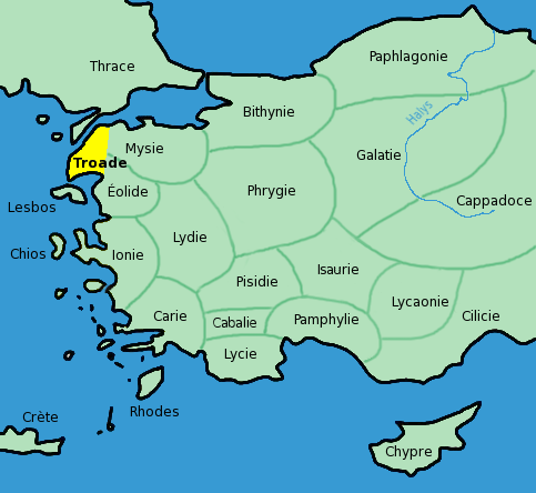 Map of Troas in French. Adaptated from Image:Turkey ancient region map ionia.JPG.